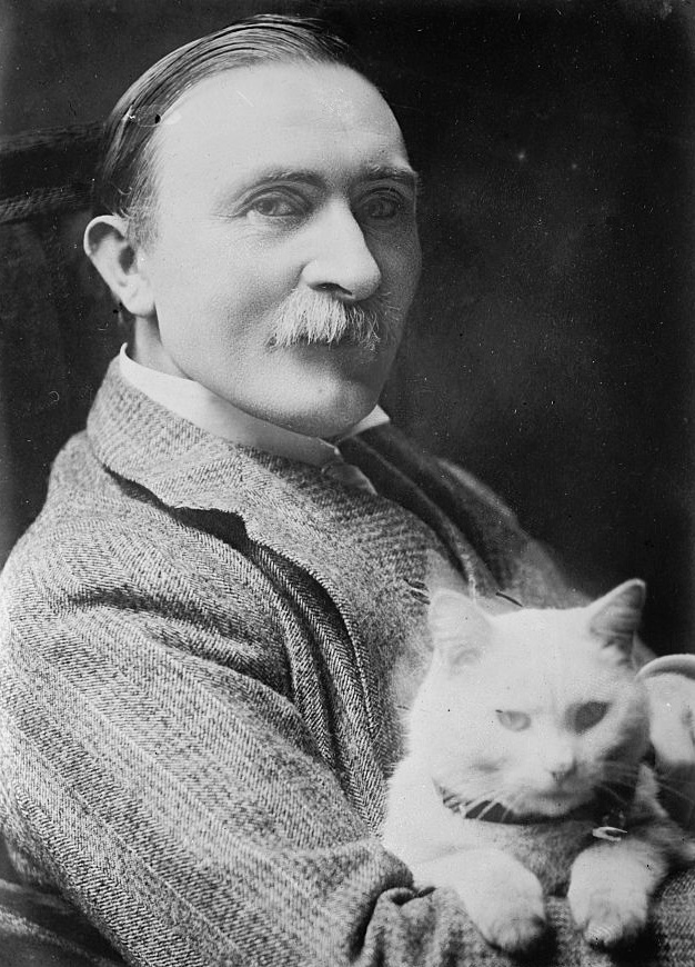 English painter Sir Philip Burne-Jones, 2nd Baronet (1861-1926), holding cat